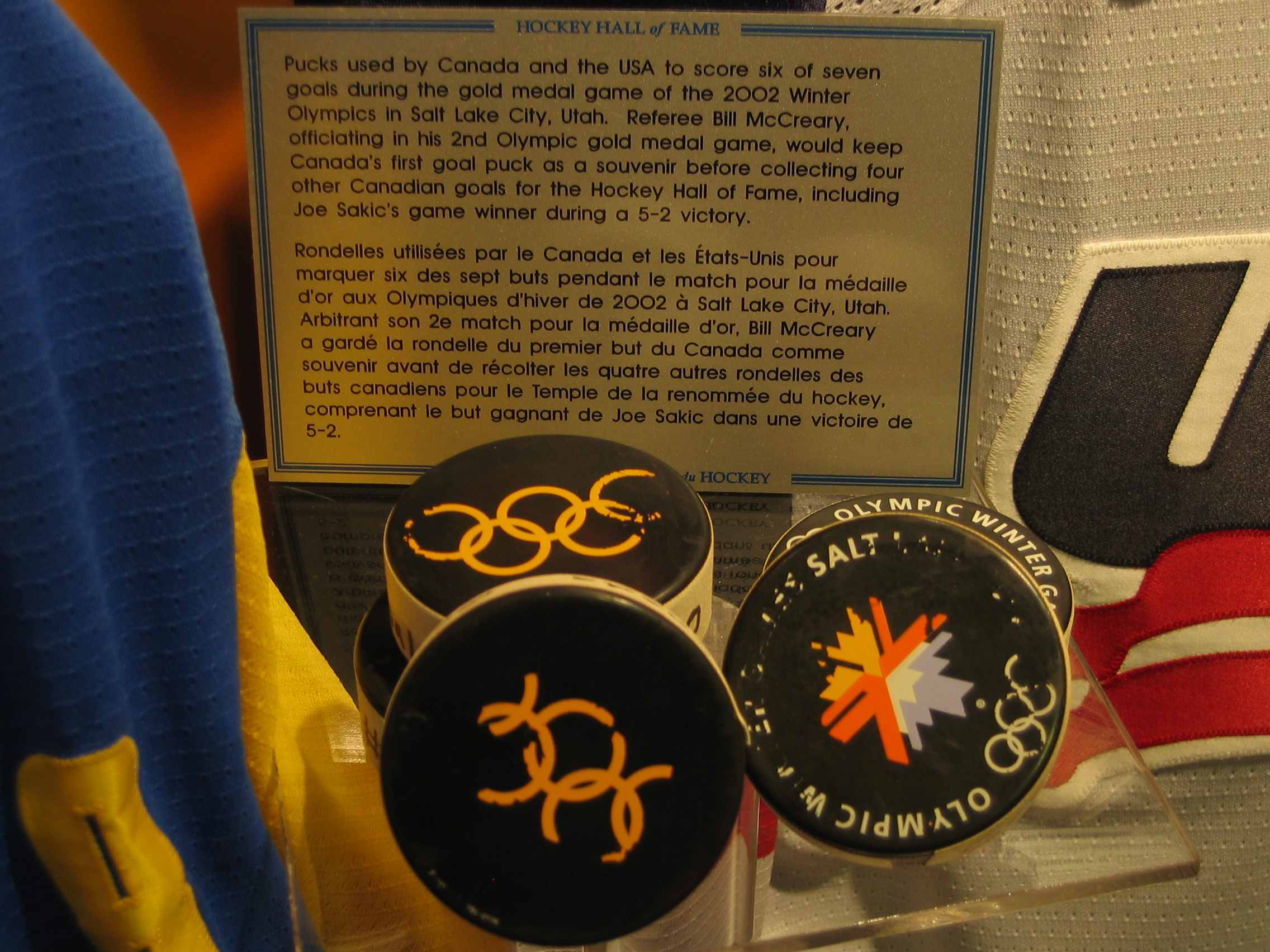 Pucks used at the 2002 Winter Olympics